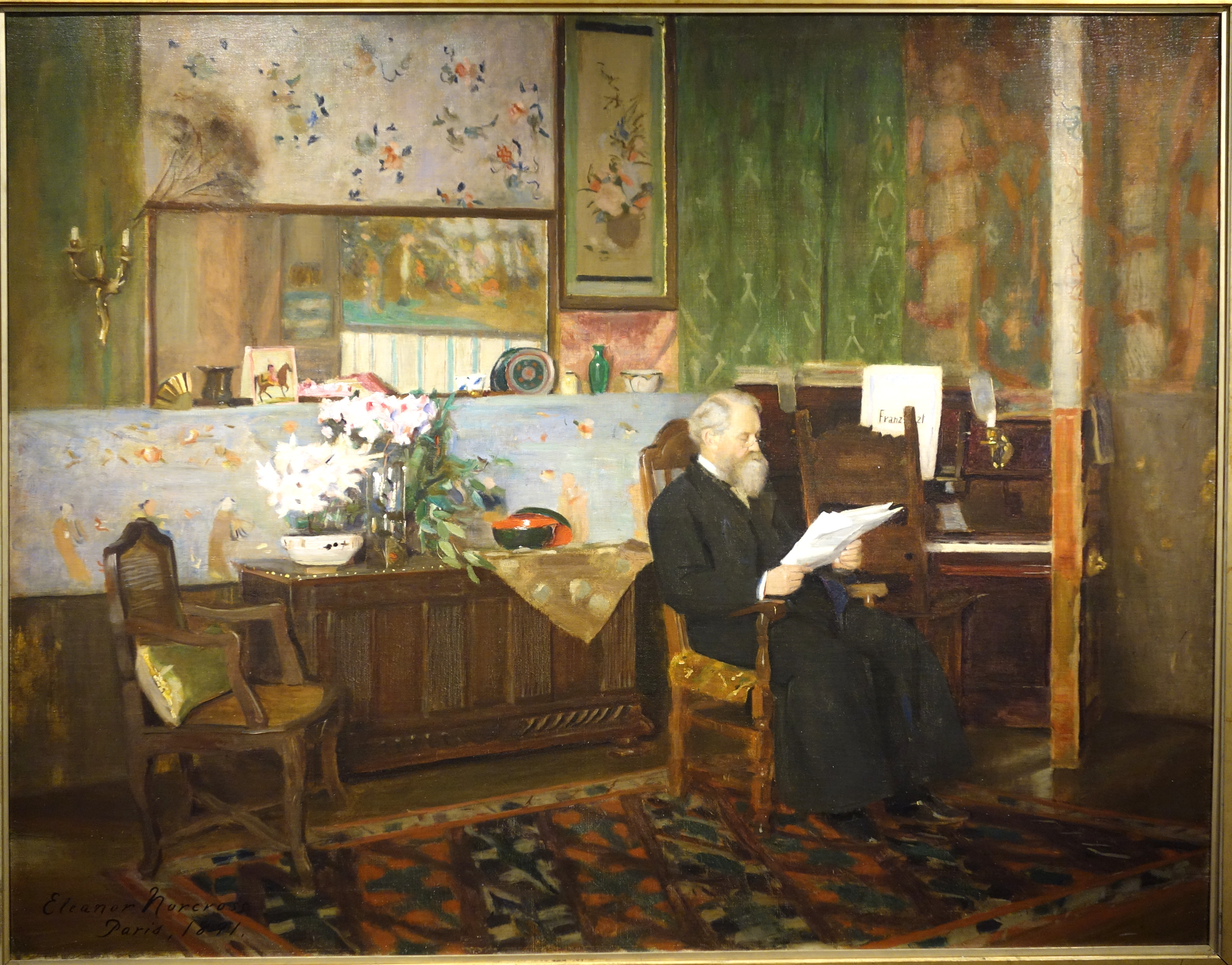 Exhibit in the Fitchburg Art Museum, Fitchburg, Massachusetts, USA. This artwork is in the public domain because the artist died more than 70 years ago.